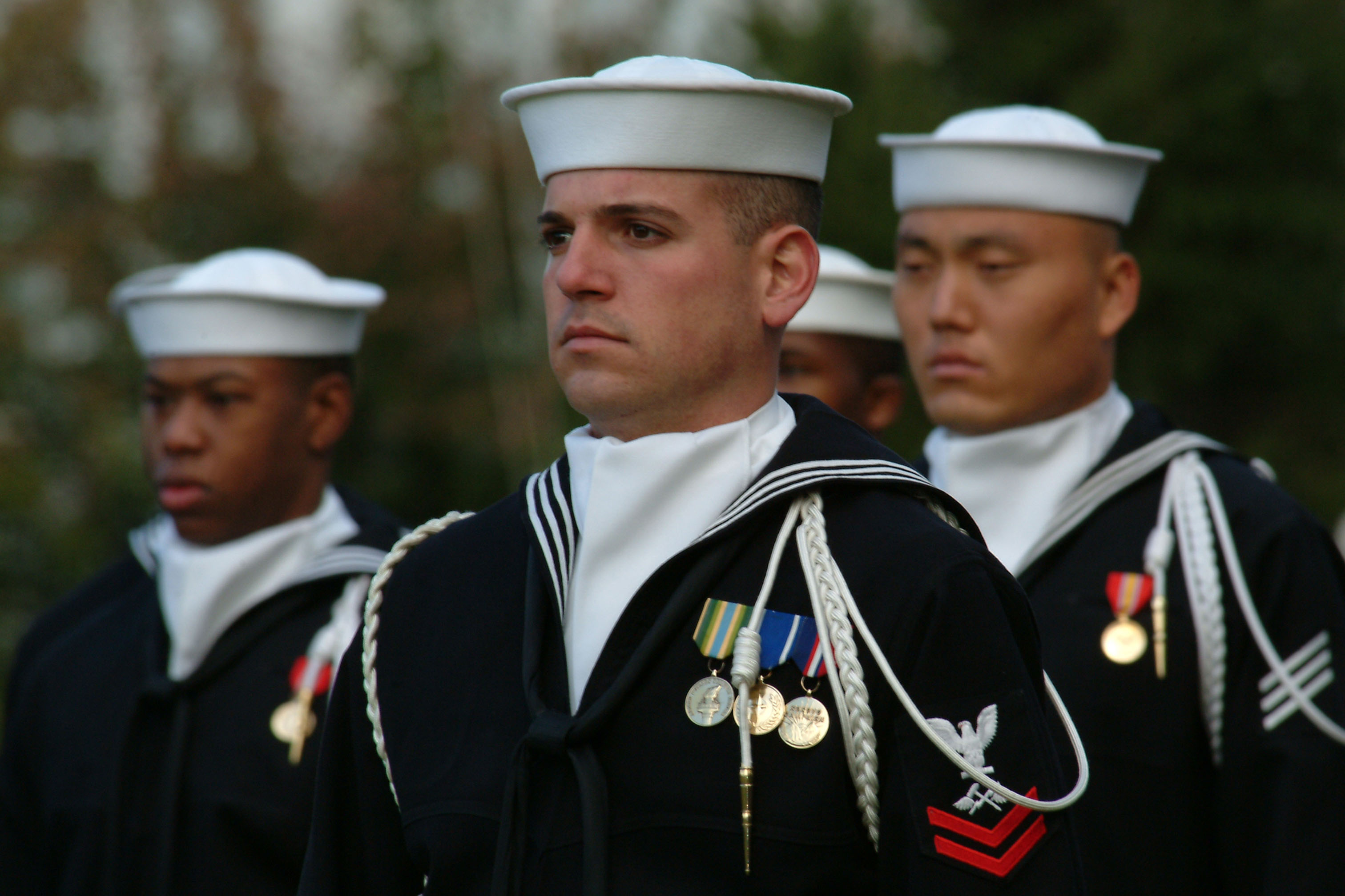 Washington Navy Yard, Washington, D.C. (Oct. 23, 2003) -- Sailors assigned to the U.S. Navy's Ceremonial Guard stand at attention during a full honors ceremony in honor of Adm. Marcello De Donno, Chief of Staff of the Italian Navy. U.S. Navy photo by Chief Photographer’s Mate Johnny Bivera. (RELEASED)